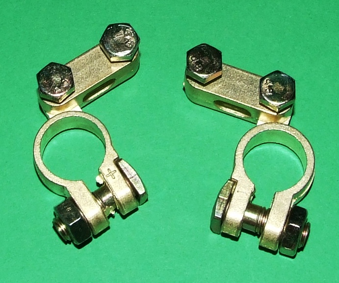 Car battery clamp terminals. Positive ("+"), on the left, and Negative ("-"), on the right.